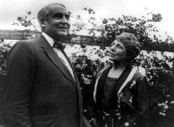 US President Warren G. Harding and his wife Florence in their garden